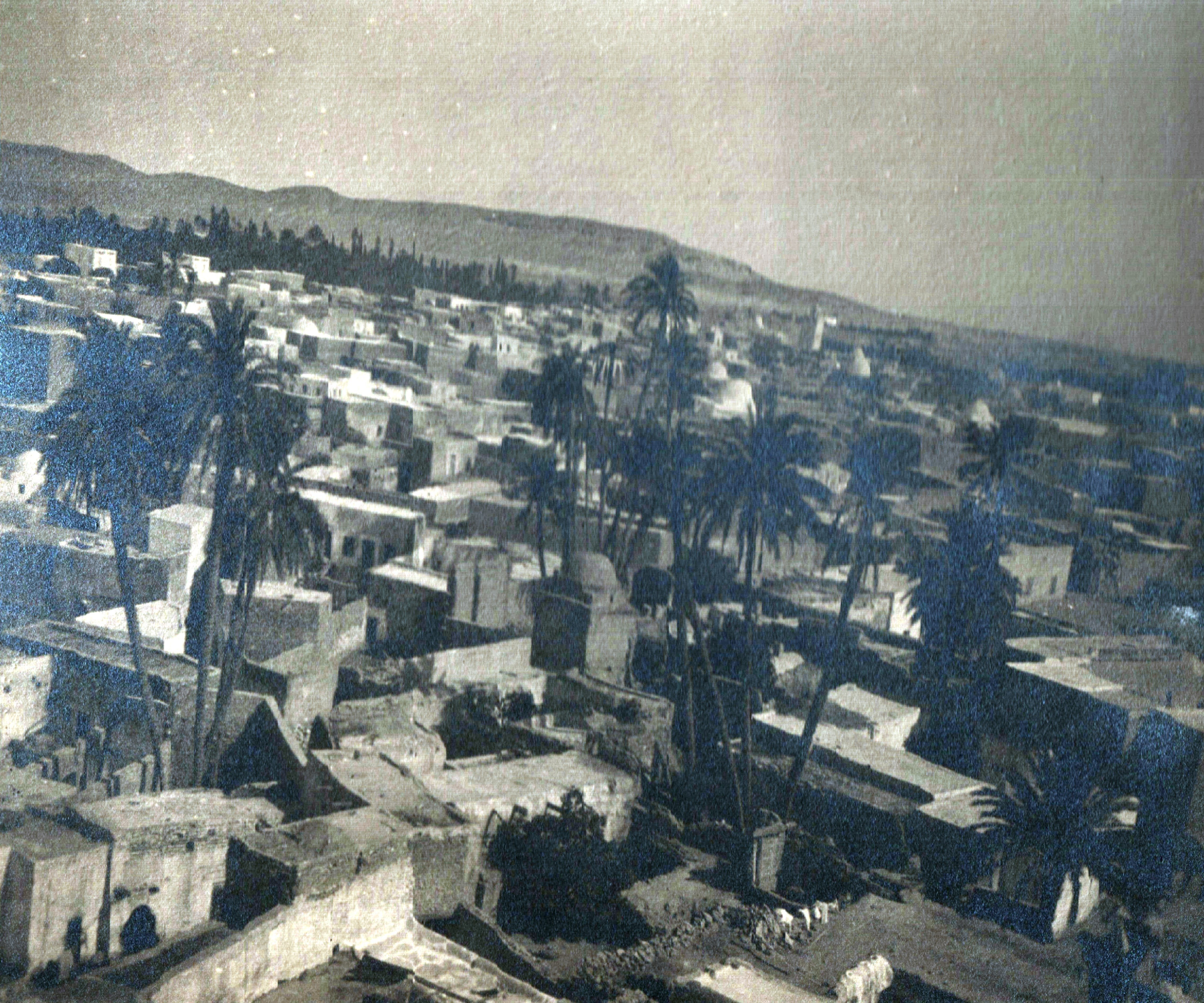 Views and photos of the Sahara desert and other regions in Africa.